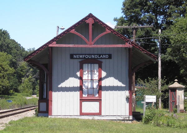 The former New York, Susquehanna and Western Railway station depot at Newfoundland, New Jersey in 2006.